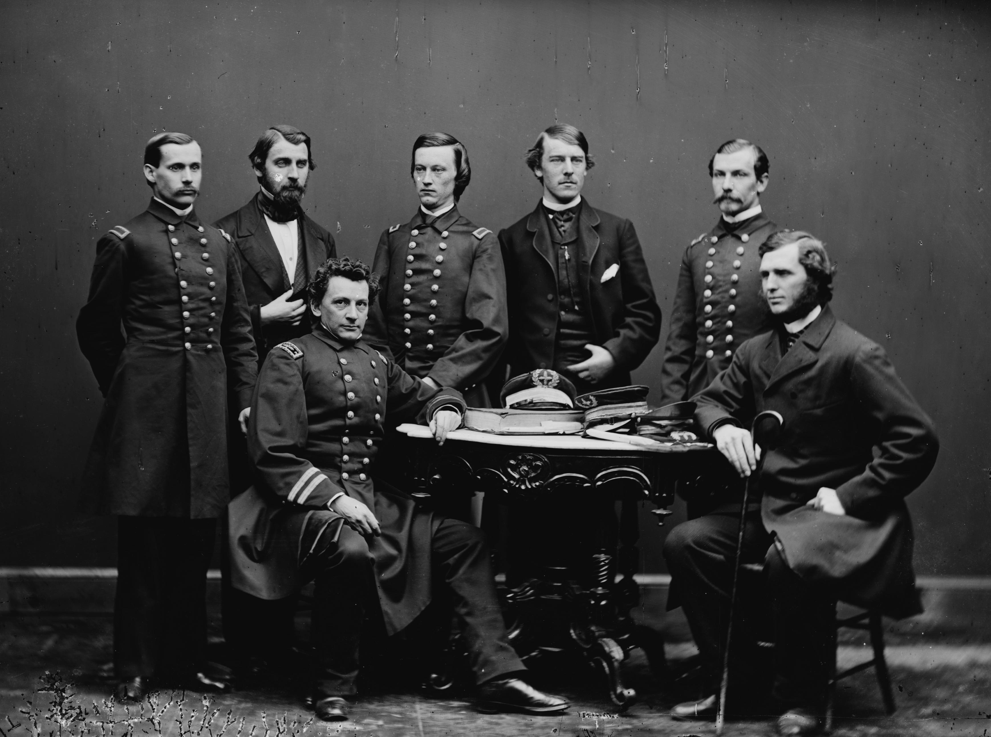 Benjamin F. Isherwood. Library of Congress description: "Engineer-in-chief B. F. Isherwood and Staff, U.S.N."